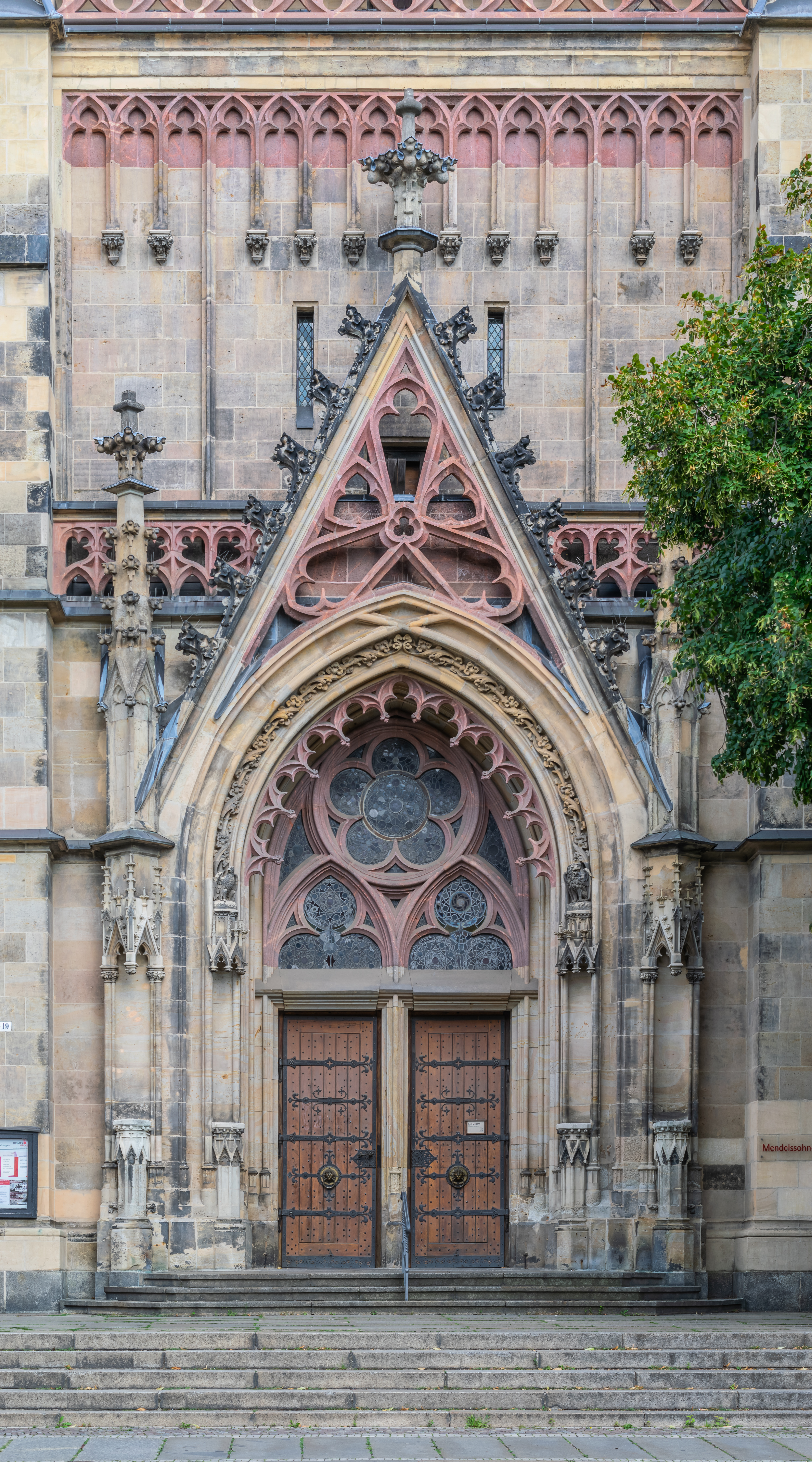 Portal of the Saint Thomas church in Leipzig, Saxony, Germany